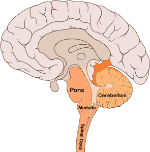 The corticobulbar (or corticonuclear) tract is a white matter pathway connecting the cerebral cortex to the brainstem (the term "bulbar" referring to the brainstem). The 'bulb' is an archaic term for the medulla oblongata. In clinical usage, it includes the pons as well. See also [1] for reference.